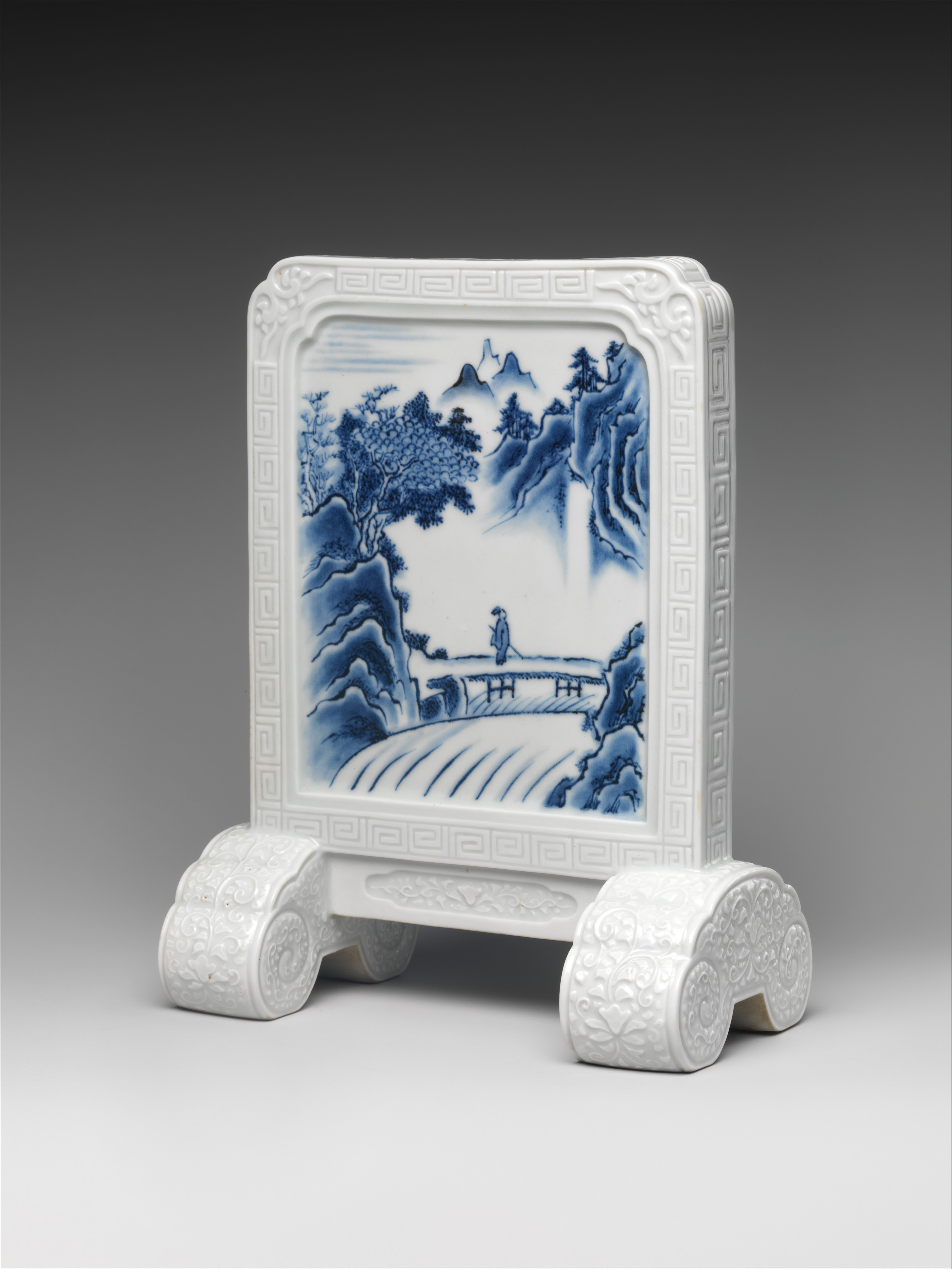 Japan; Desk screen; Ceramics